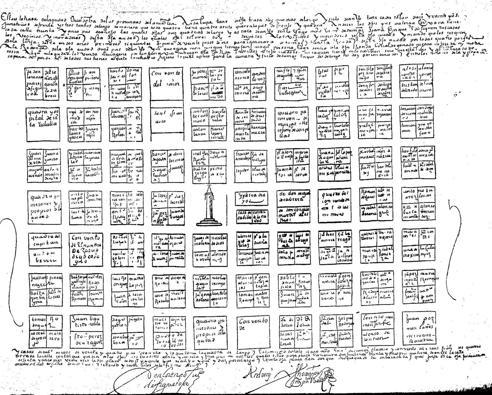 First traces of the City of Cordoba (Argentina), made in 1577 by Lorenzo Suárez de Figueroa.